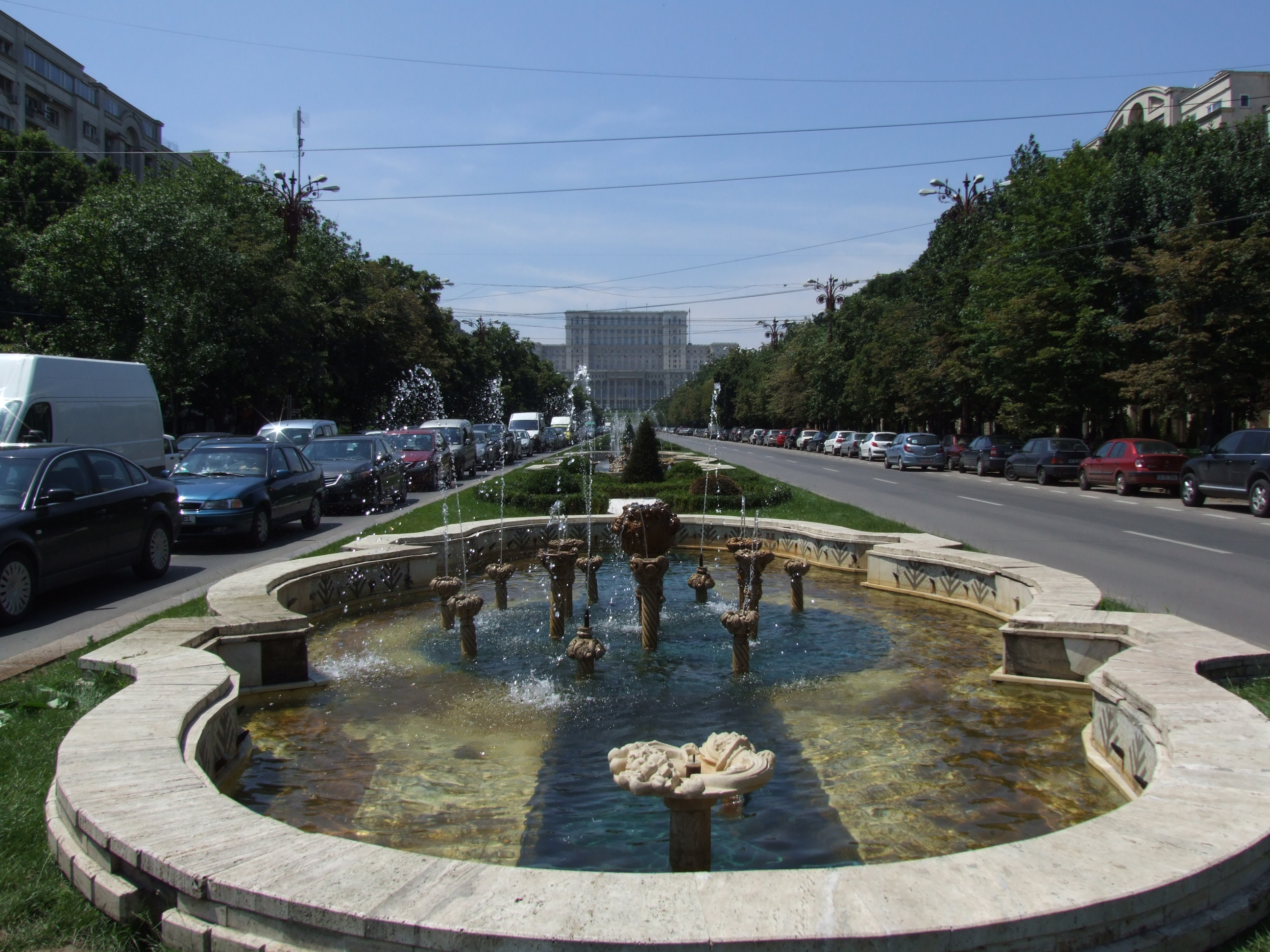 Unirii Boulevard (Bulevardul Unirii) with the Palace of the Parliament (Palatul Parlamentului) in distance, in Bucharest.